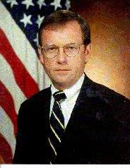 Patrick T. Henry